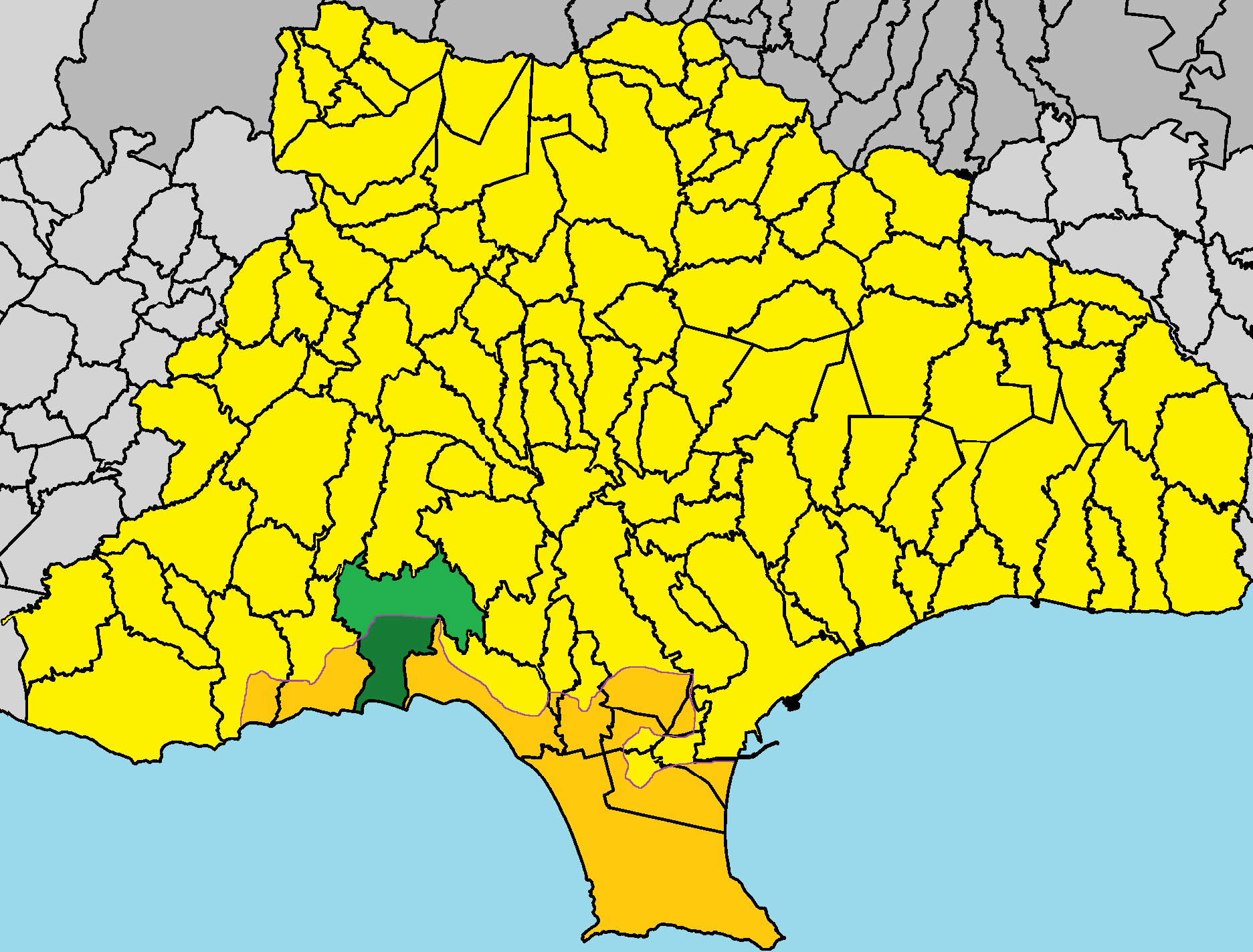 Sotira, Limassol in Limassol District.